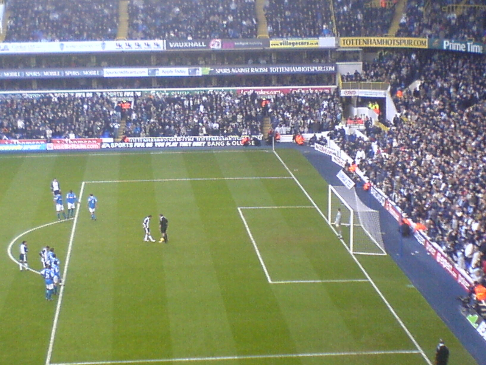 Photo by Paddy Briggs, taken during Tottenham's 2-0 home victory against Birmingham City in December 2005.